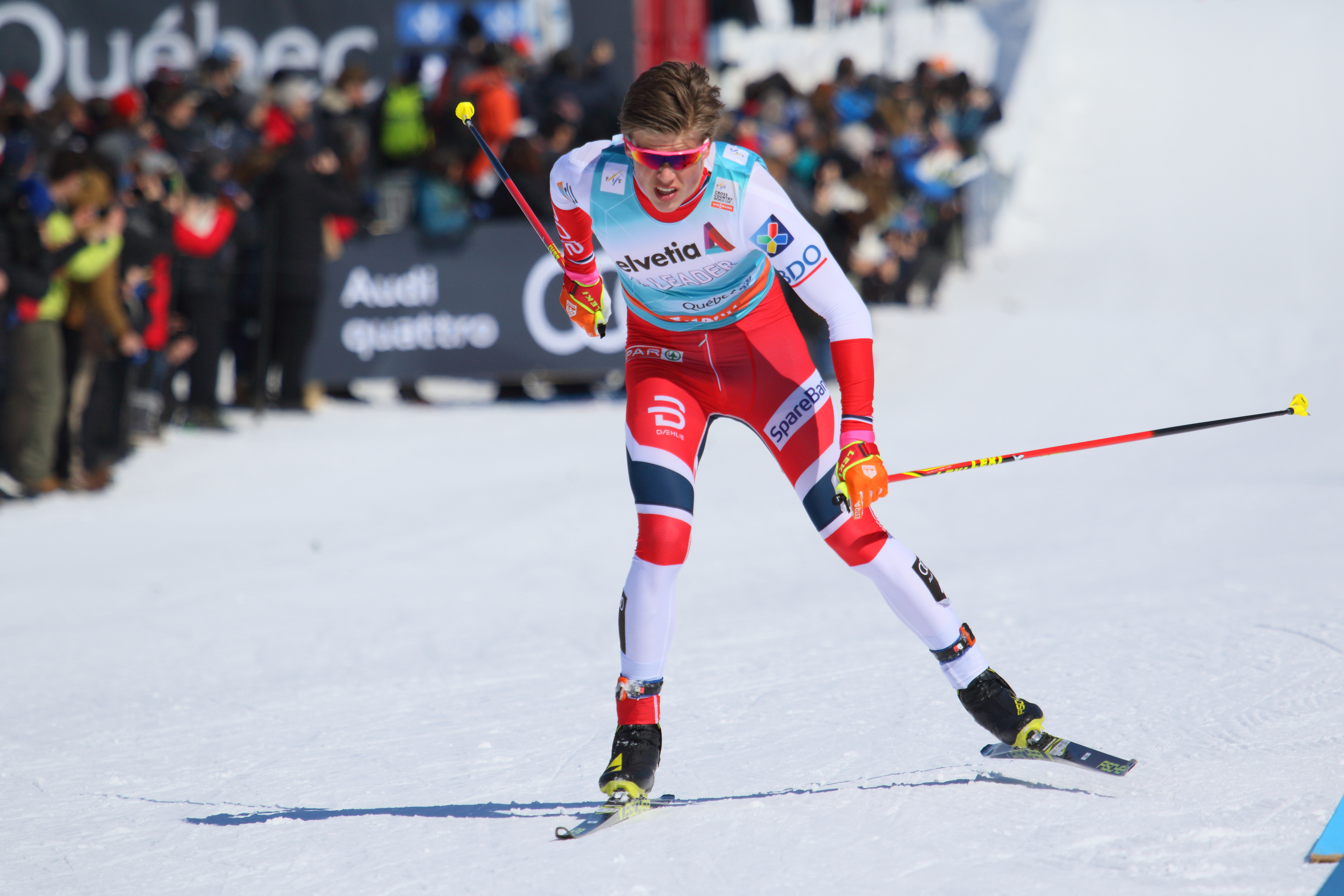 Johannes Høsflot Klæbo, 2017 Ski Tour Canada, Quebec City.